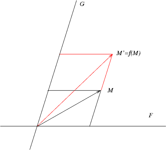 Drawing of an affinity in the plane Dessin d'une affinité dans le plan personal computer drawing